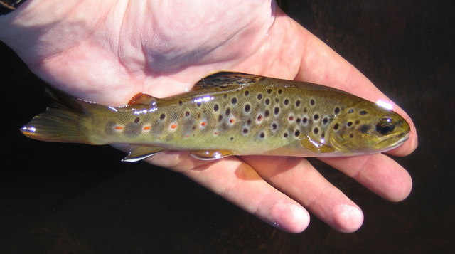 Brown Trout. A small but perfectly formed brown trout from the East Dart.